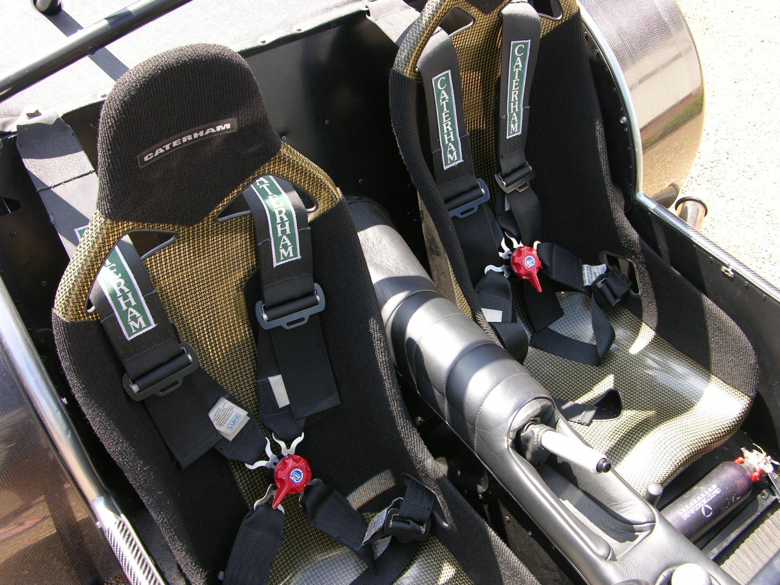 2004 Caterham R400 Superlight SV